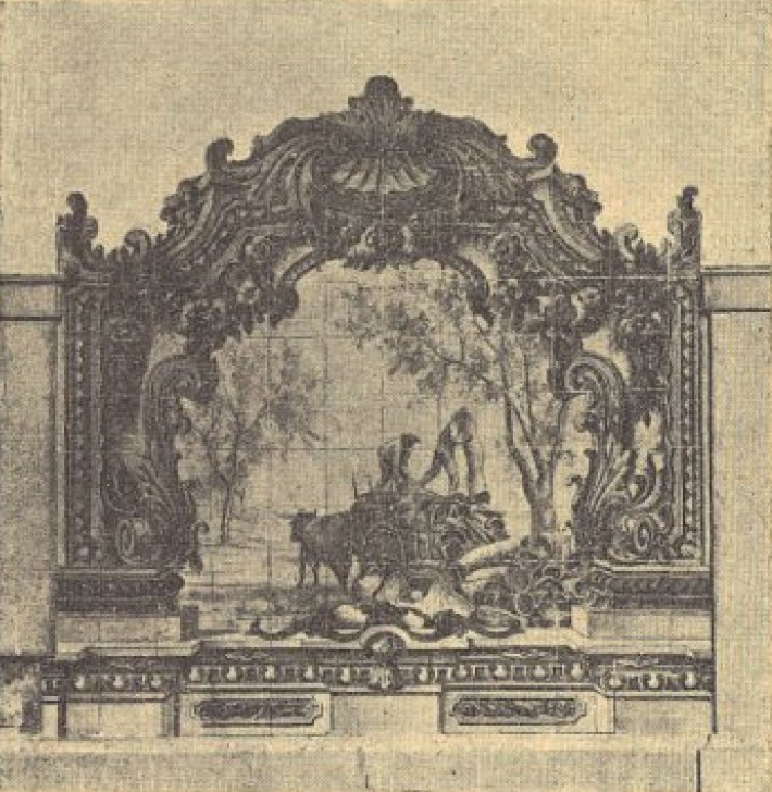 Tile panel on the Santiago do Cacem Railway Station, in the Sines Railway, in Portugal. This photograph was published on the Gazeta dos Caminhos de Ferro magazine No. 1076, of the 16th October 1932, and scanned by the Hemeroteca Municipal de Lisboa.